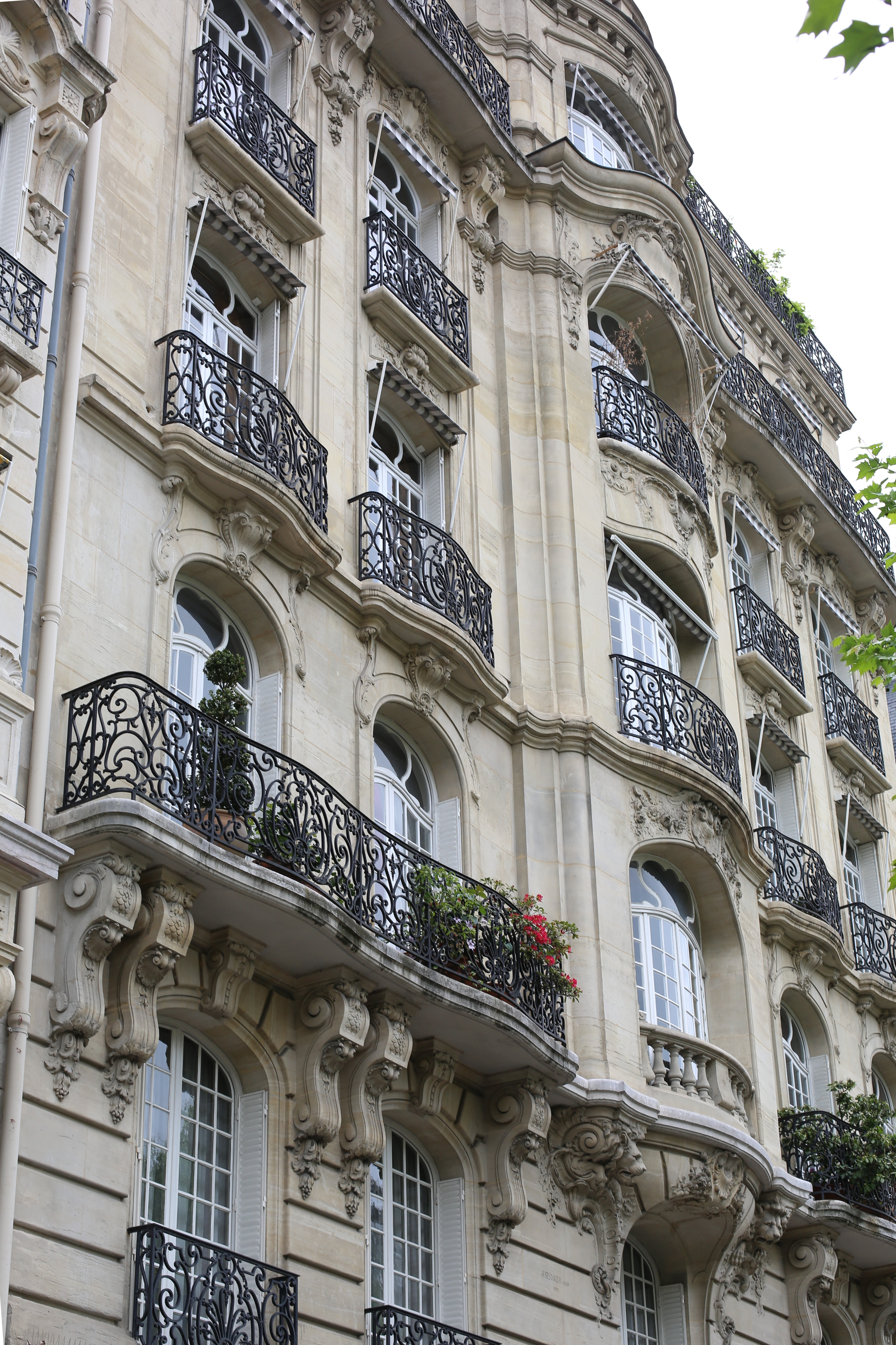 Luxembourg embassy in France, at the 4th floor of the building, 33 avenue Rapp, Paris.